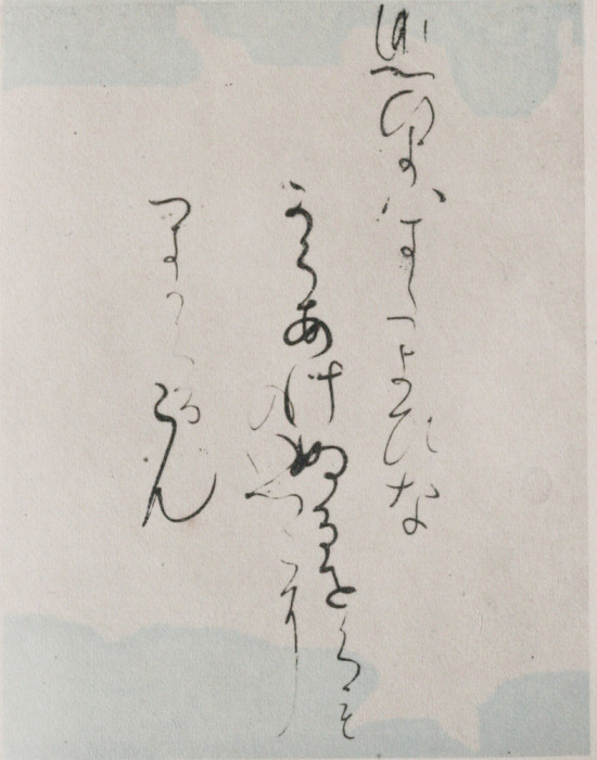 MASU-SHIKISHI, a calligraphy of a poem by KIYOHARA-FUKAYABU(early 10th century). 13.7 cm height, 11.8cm wide. Ink on ornamented paper.